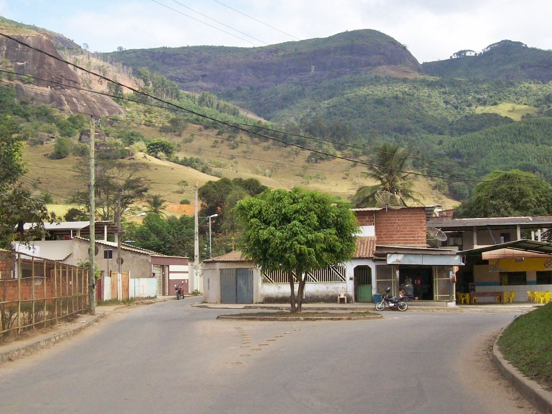 Roundabout of the Caladão neighborhood, in Coronel Fabriciano, Minas Gerais, Brazil.